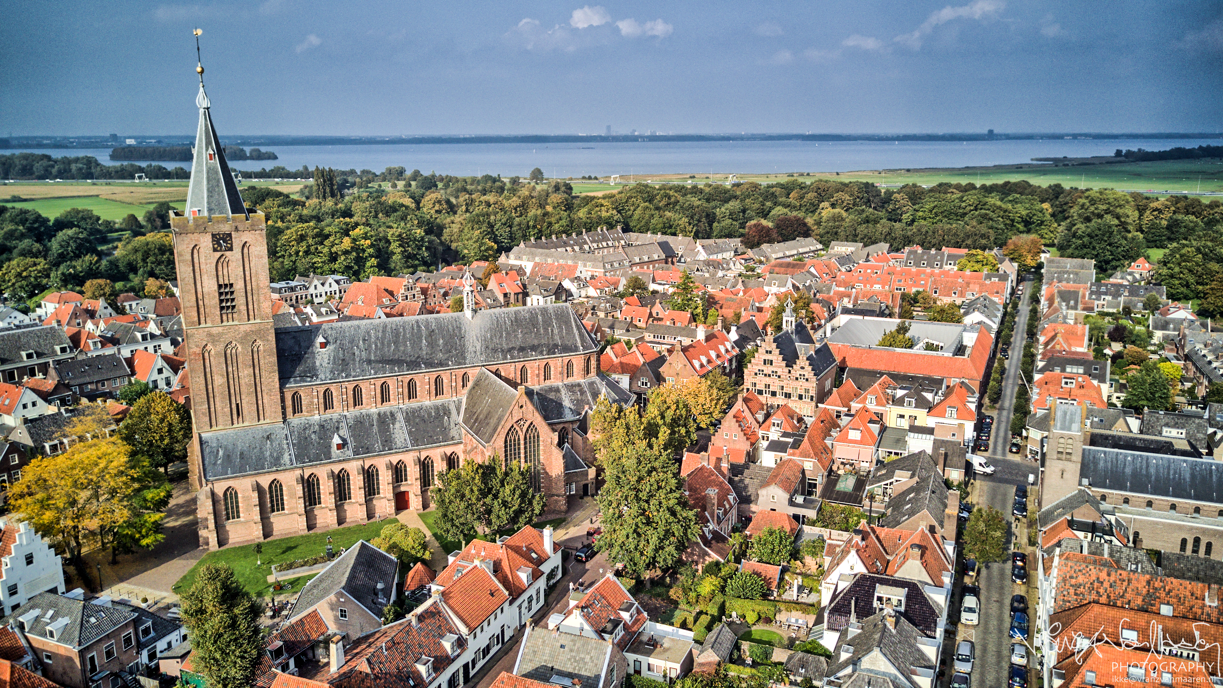 Grote Kerk, Fortress Naarden (Naarden-Vesting), 2017-09-27